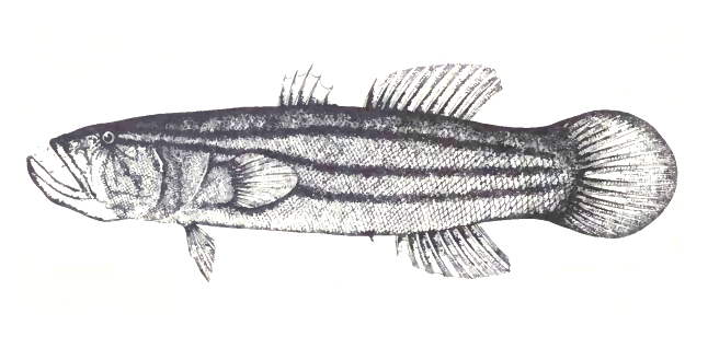 Odonteleotris polylepis (Herre, 1927)